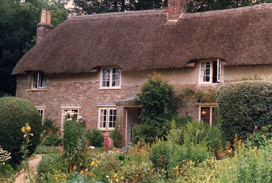 Thomas Hardy's birthplace